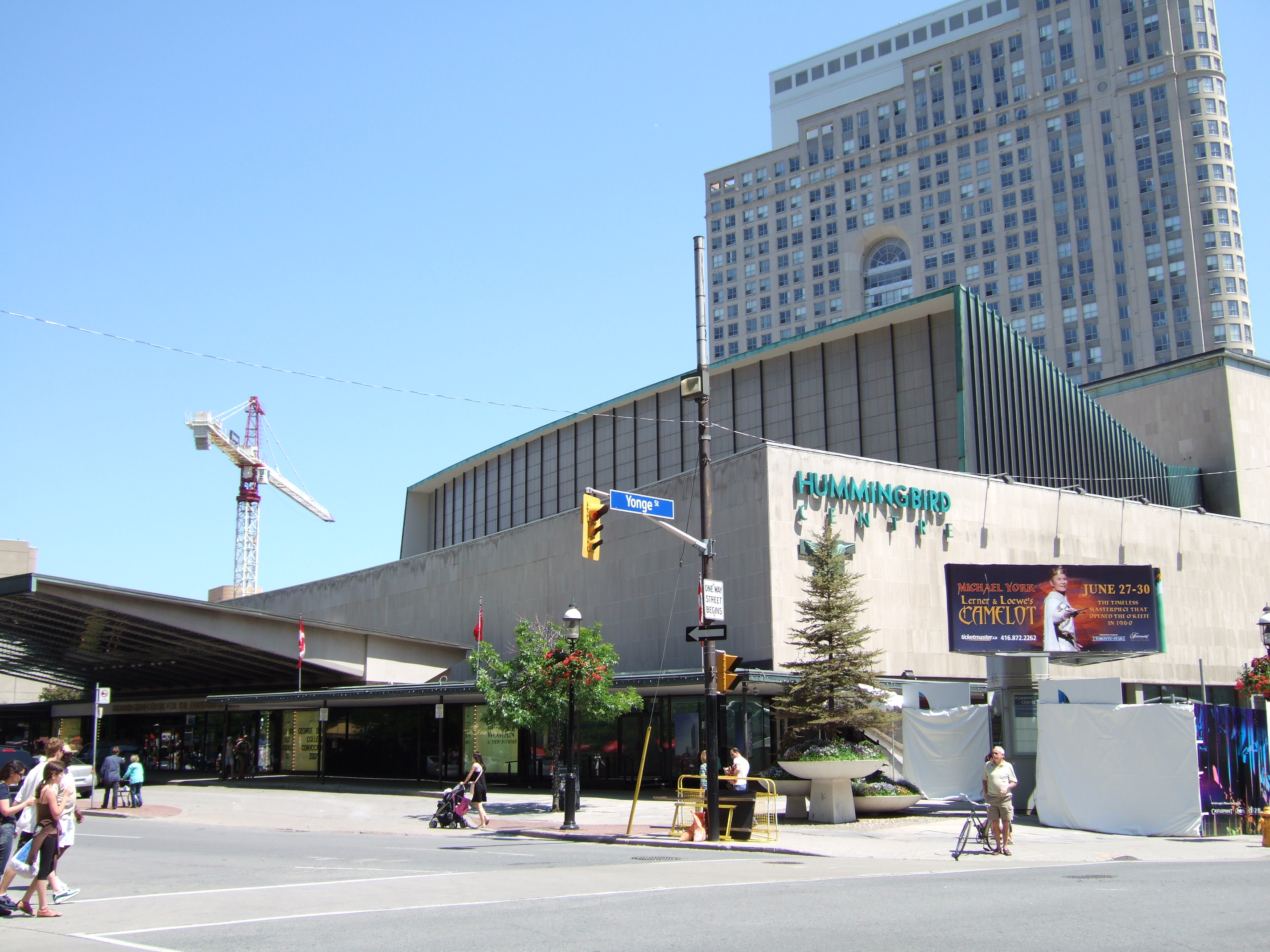 Hummingbird Centre. One of major performing arts venue in Toronto., Toronto.